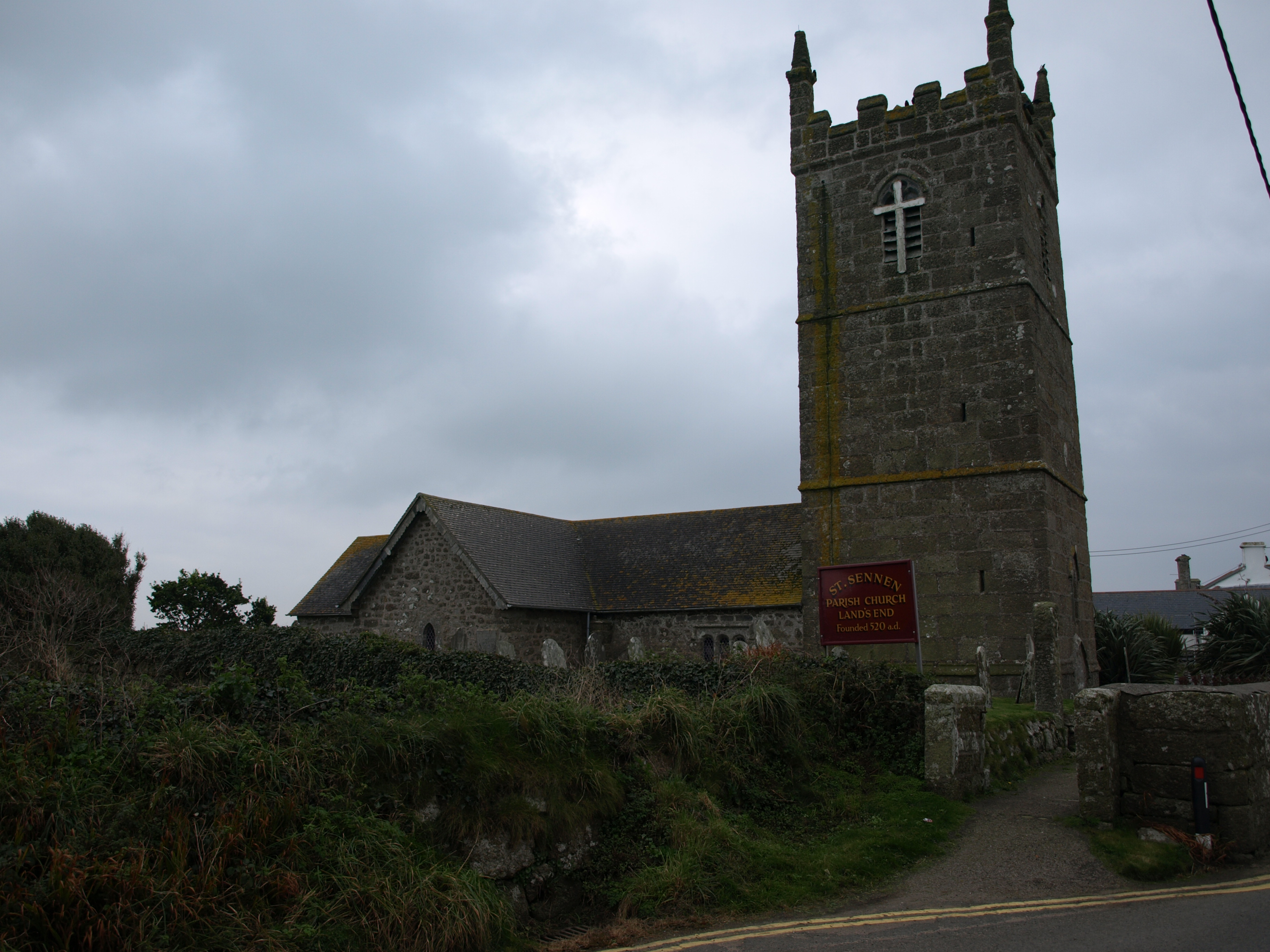 St Sennen's parish church, St Sennen, Cornwall, seen from the north